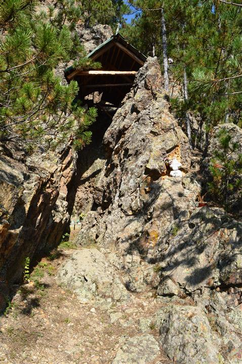 Raska Municipality - Rudnica